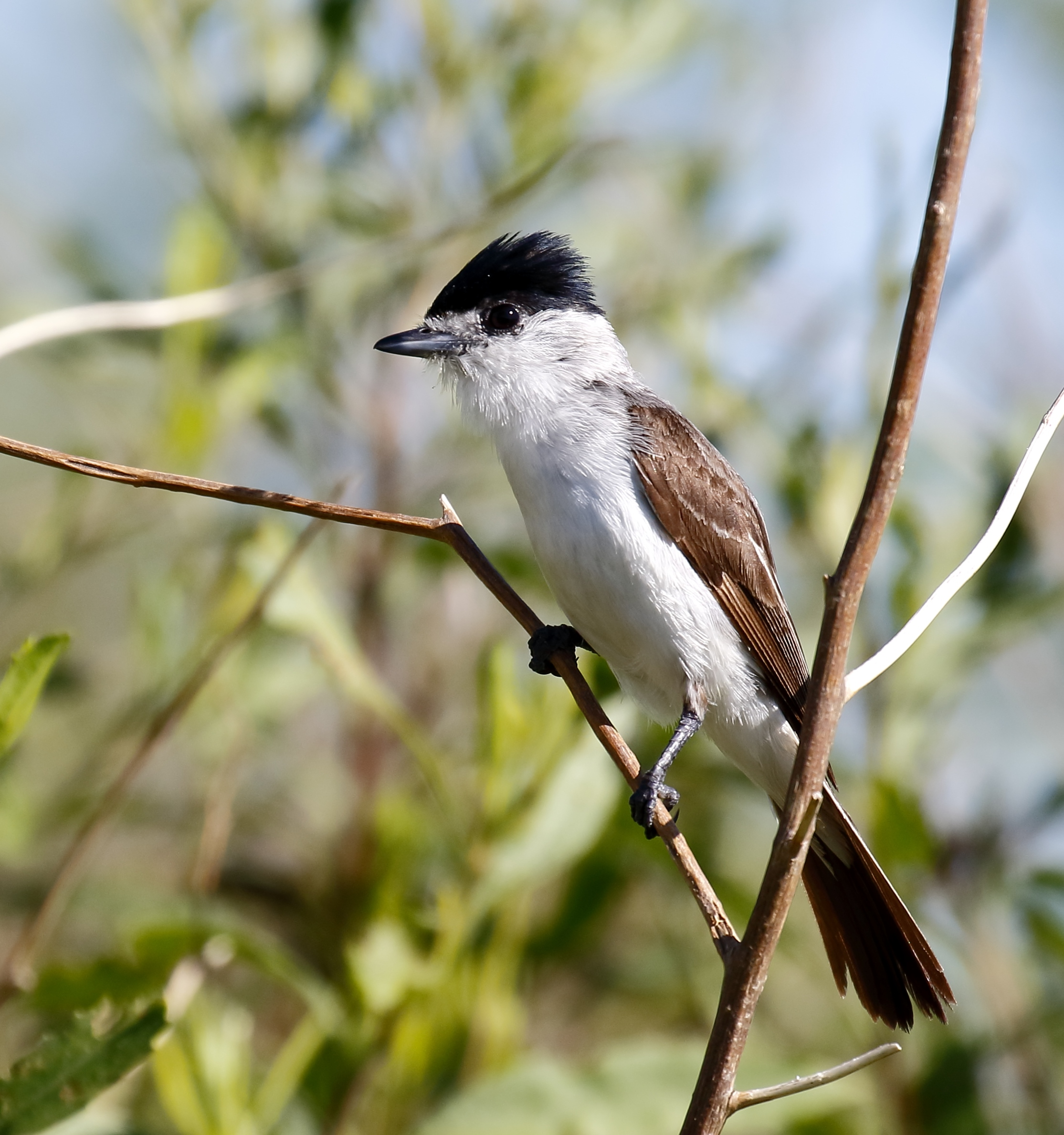 White naped xenopsaris (adult) at Capivara, Santa Fe, Argentina